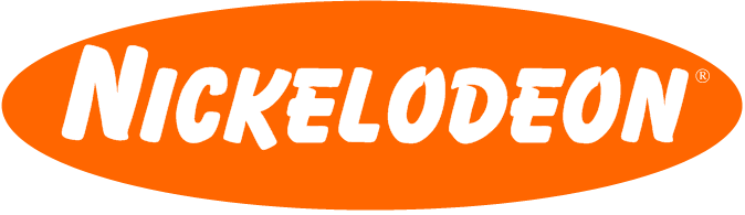 Logo used by the Nickelodeon programming block on Swiss free-to-air channel SF2